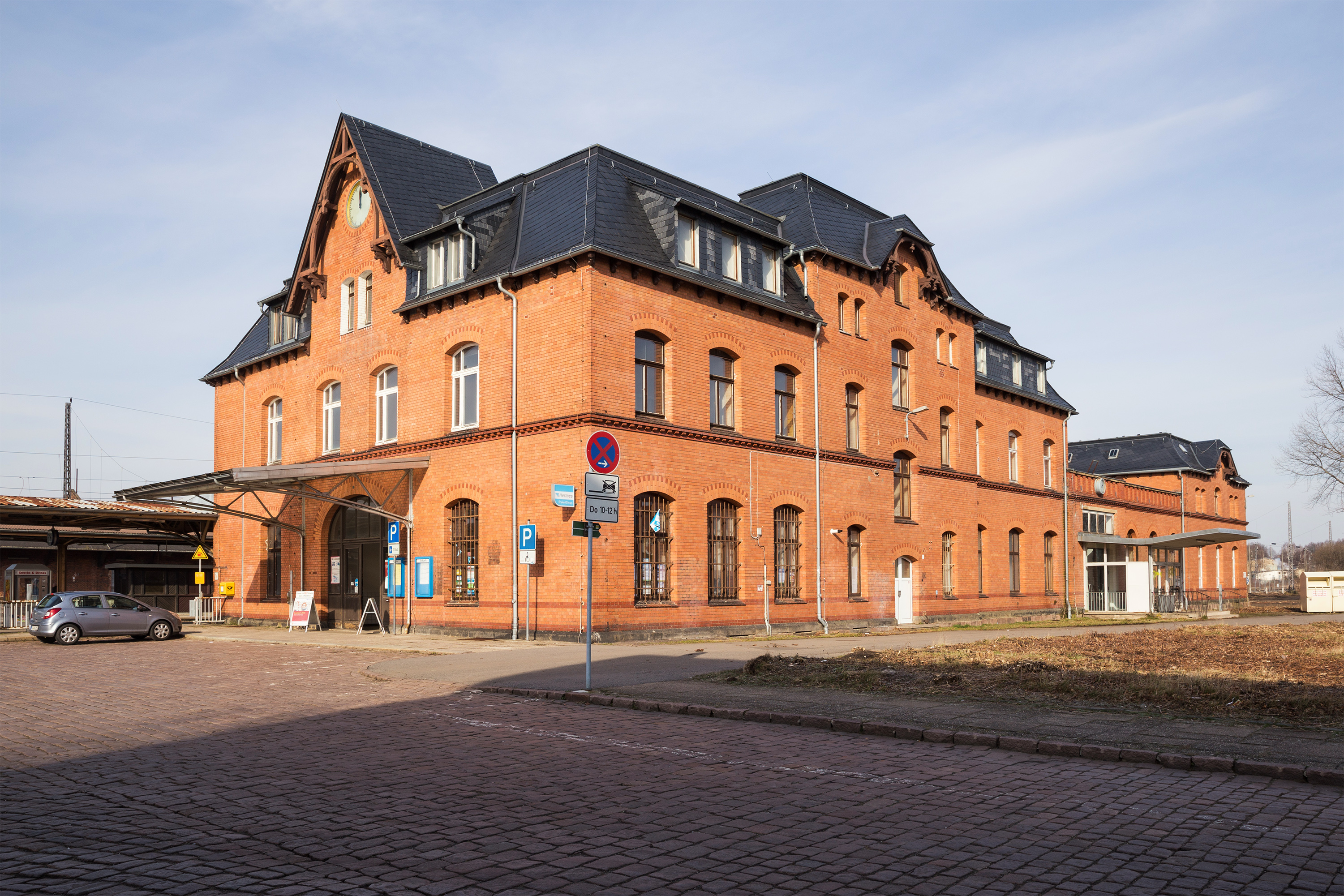 Mittweida, railway station